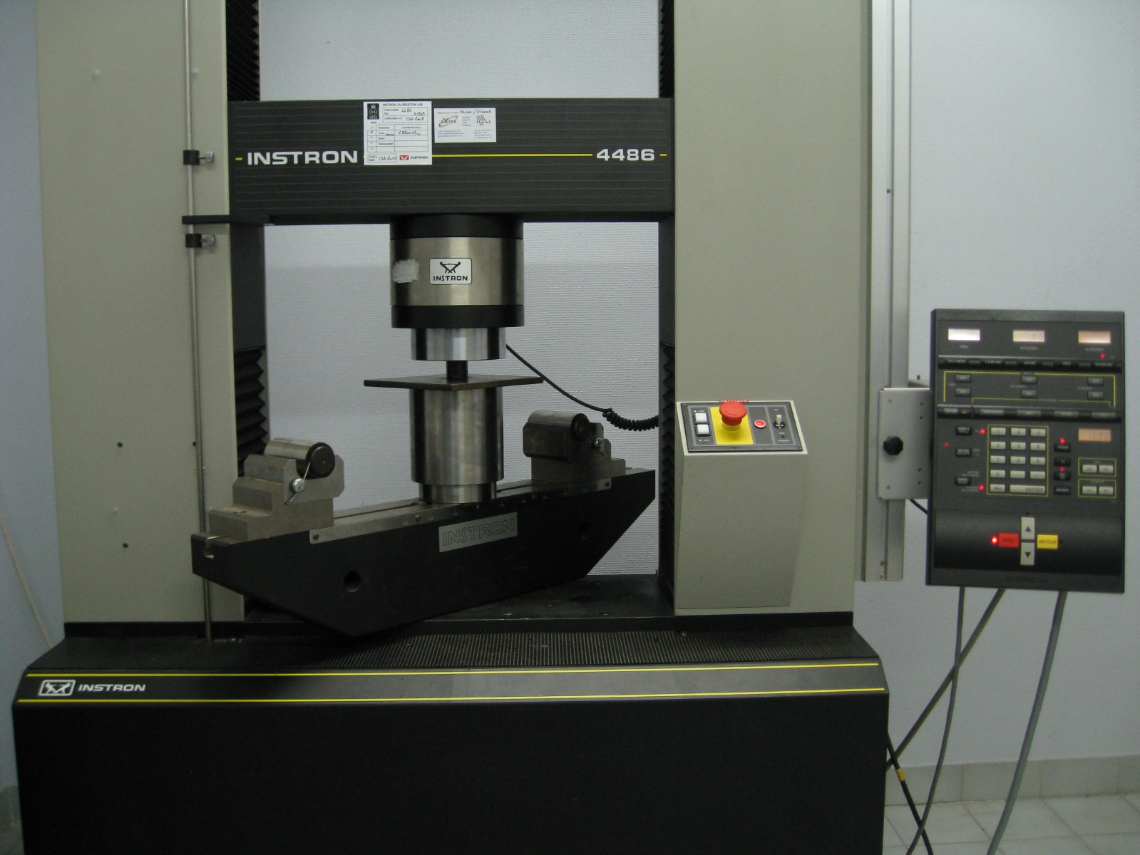 Instron universal testing machine equipped with a 300 kN dynamometer. Measuring the compressive strength of a composite cylinder (glass bead-reinforced epoxy).